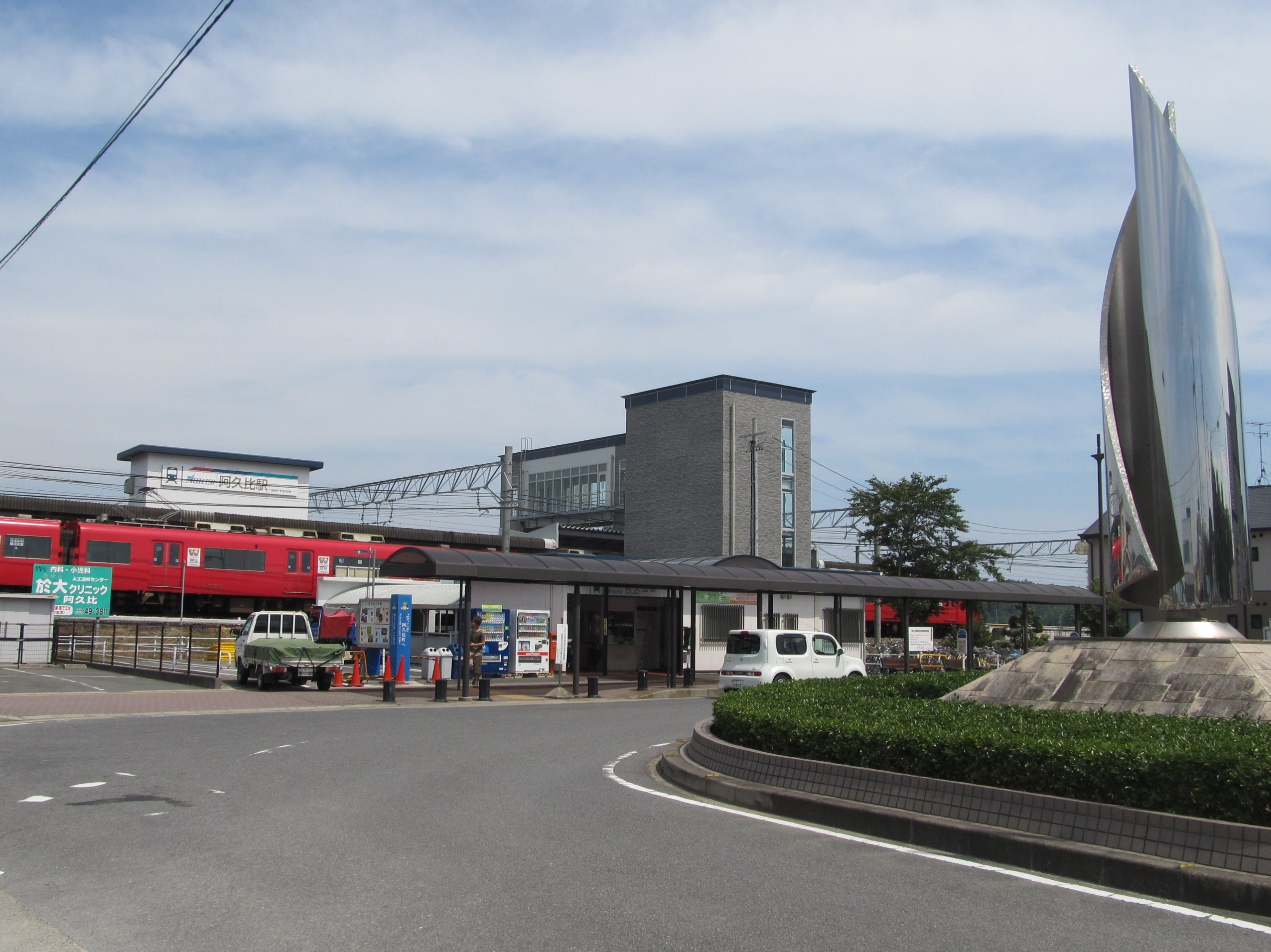 Nagoya Railroad Kōwa Line Agui Station